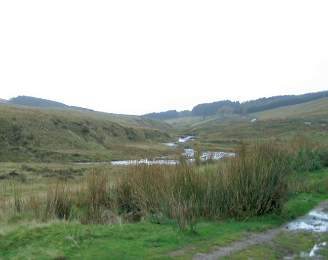 Afon Llia. The Llia river snaking south into the distance towards Ystradfellte. The narrow road can be seen on the right, heading towards the forest.